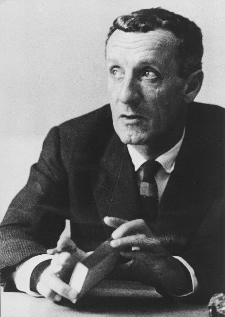 Photograph of Maurice Merleau-Ponty